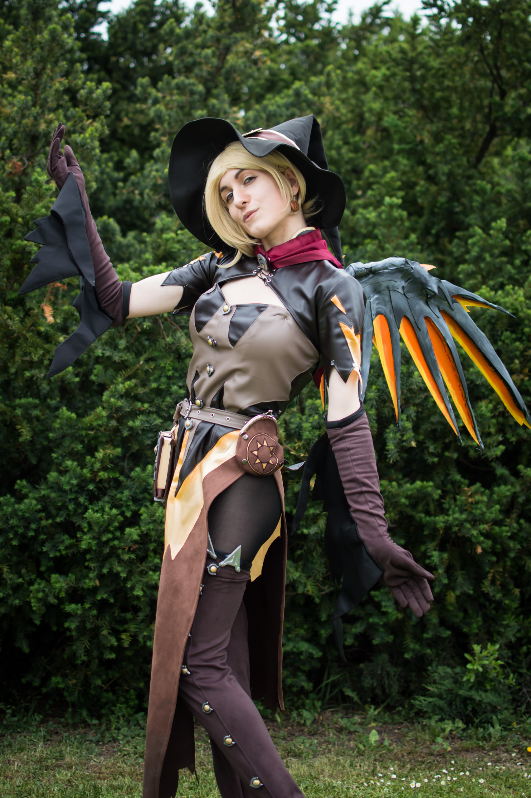 A photograph of the alternate "Witch" skin for Mercy, a character from the video game Overwatch.